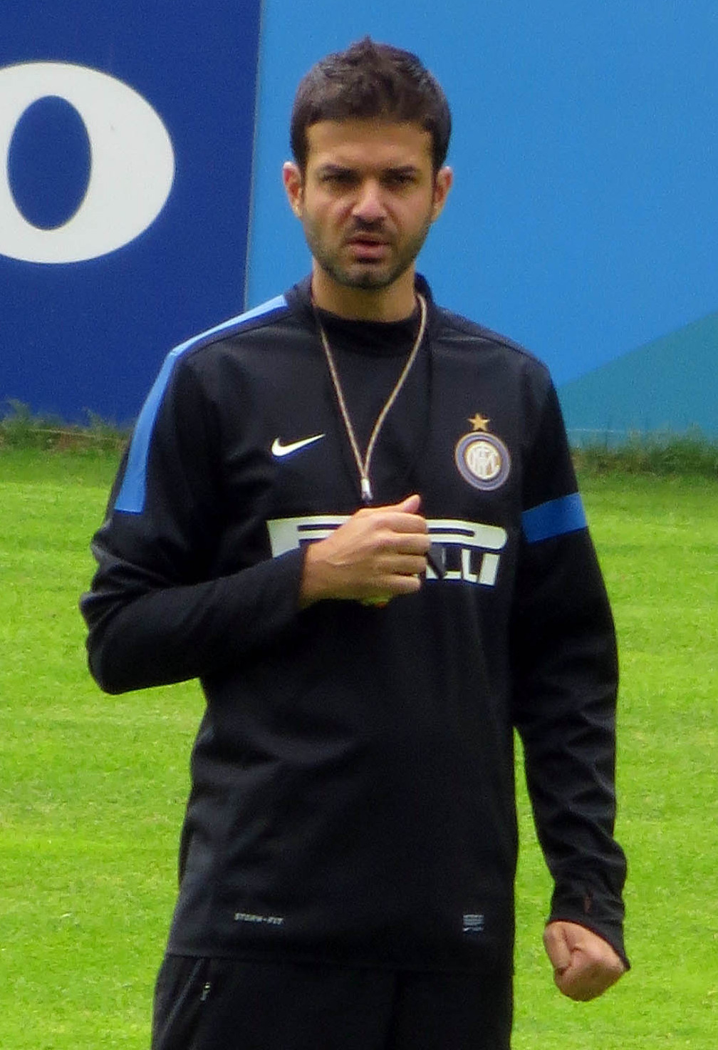 Andrea Stramaccioni, coach of Inter Milan